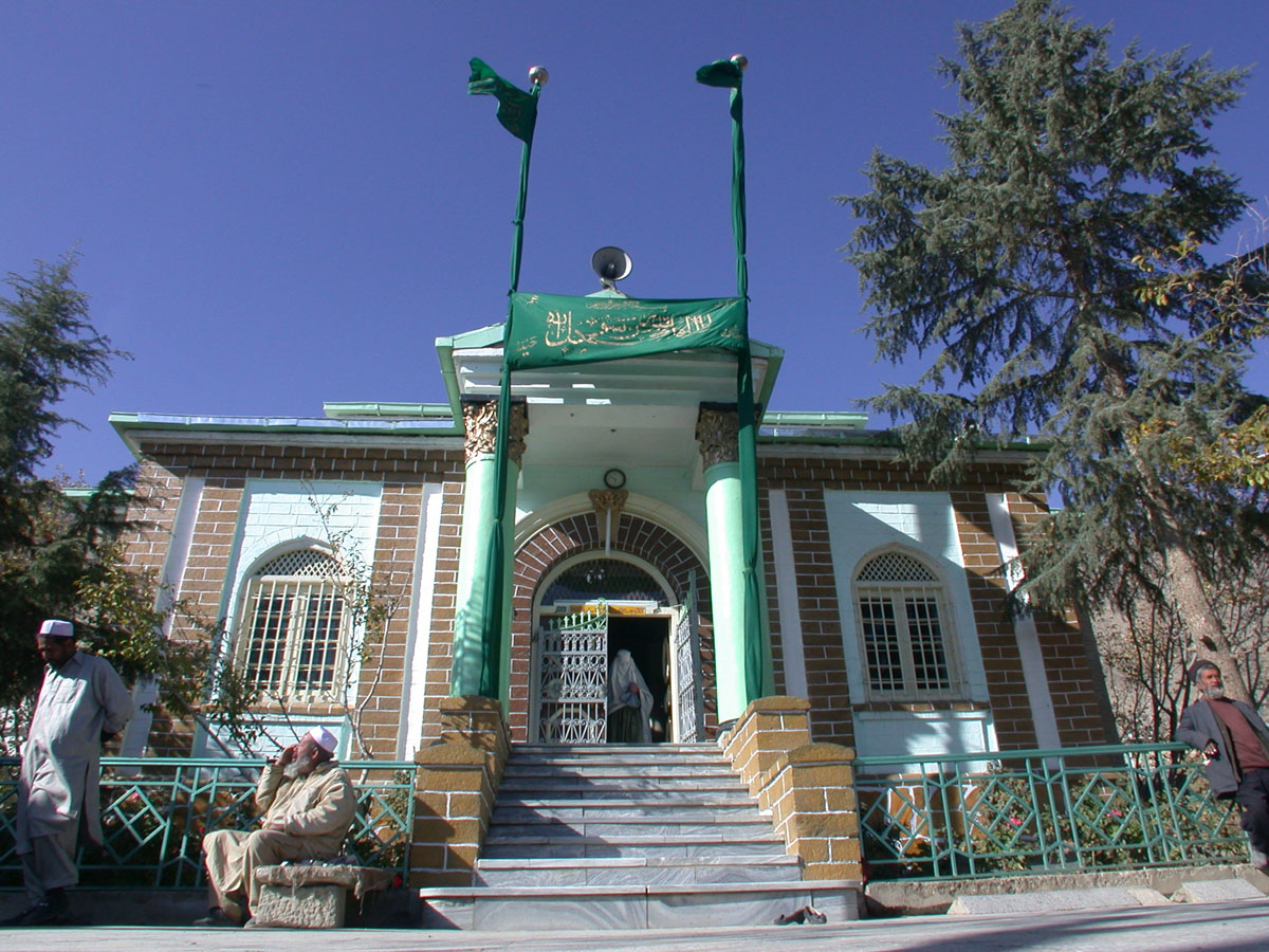 Tamim Ansar's Mosoleum is located in the biggest single cemetery in Afghanistan, Shuhada-e-Salehin. The Man is said to be a companion of Islam's prophet, who was killed during the Arab conquests in Kabul.